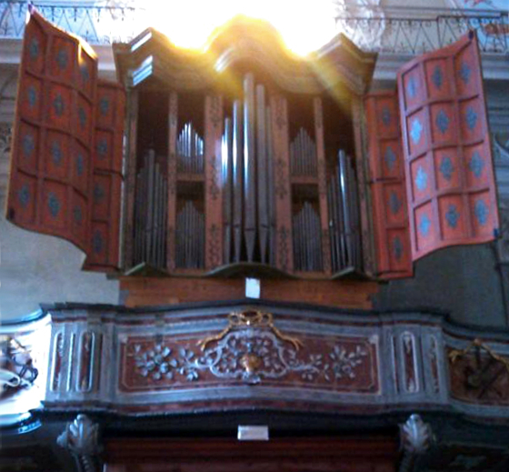 The organ of Fezzano parish church, Italy.